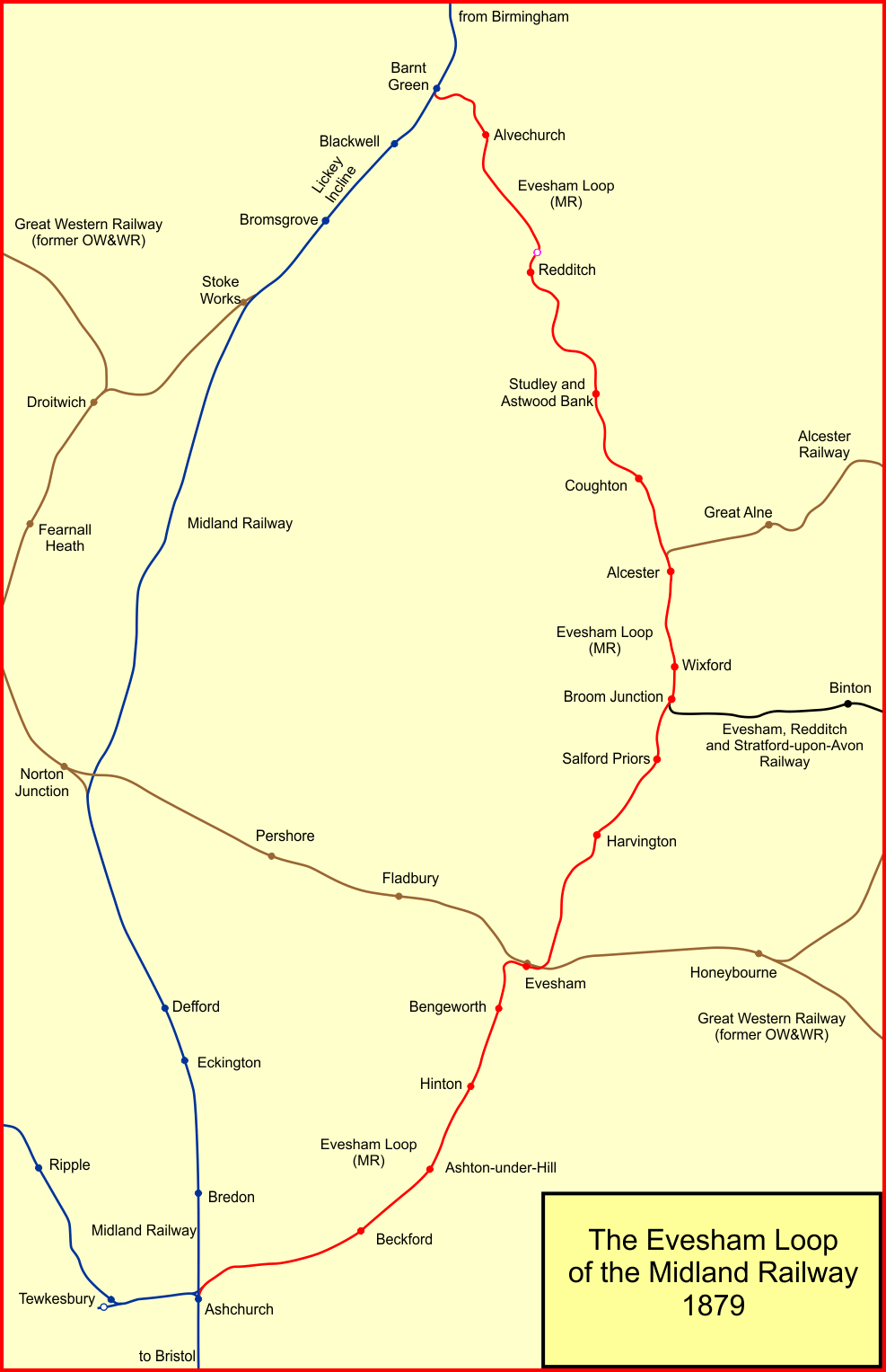 System map of the railways that formed the Evesham Loop of the Midland Railway in England in 1879